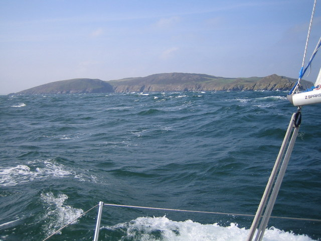 Tayleur Bay, Lambay Island